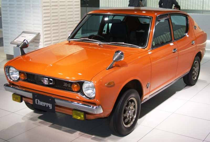 Nissan Cherry 1200 X-1.